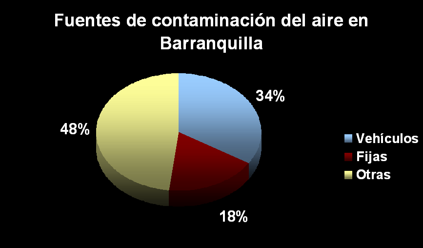 Barranquilla - Pollution sources.